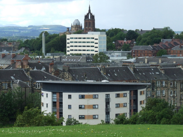 Paisley from Saucel Hill.